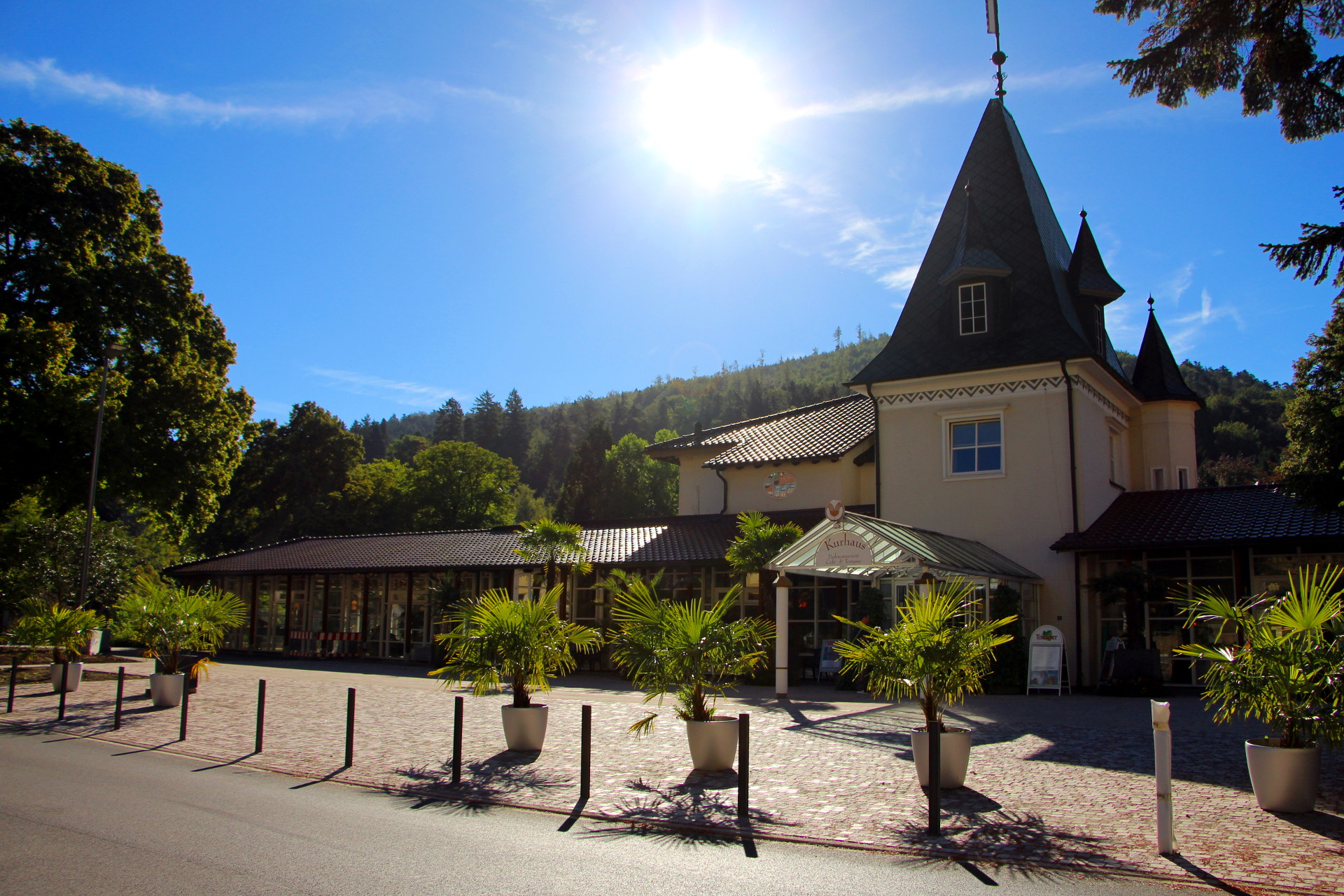 This picture shows the new forecourt of the Kurhaus Bad Herrenalb. It's one of the urban areas that have been renovated due to the Gartenschau 2017.